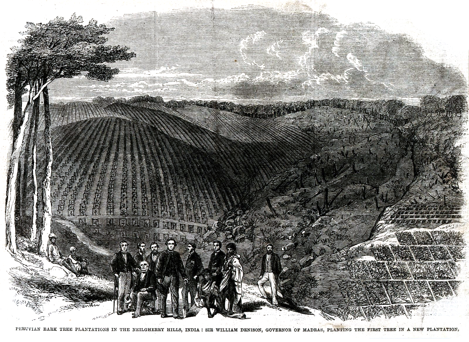 ‘Peruvian Bark Tree Plantation in the Neilgherry Hills, India: Sir William Denison, Governor of Madras, Planting the First Tree in a New Plantation’ - the man sitting at left is Sir William Denison, the man with spade on the extreme left is William Graham McIvor.